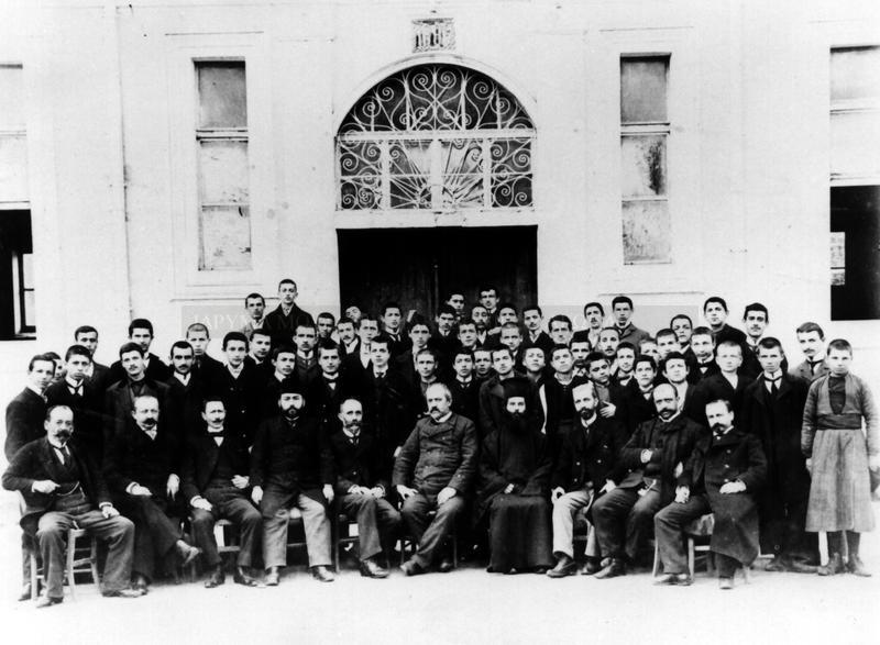 Greek School Gymnasium of Monastir (modern Bitola)